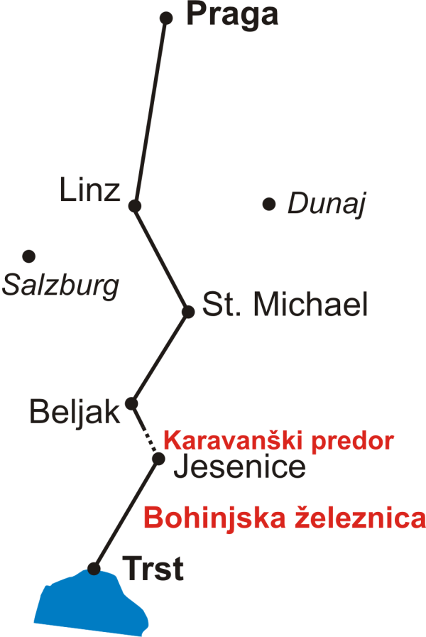 Location of the Bohinj Railway within the Prague-Jesenice-Gorizia-Trieste line.